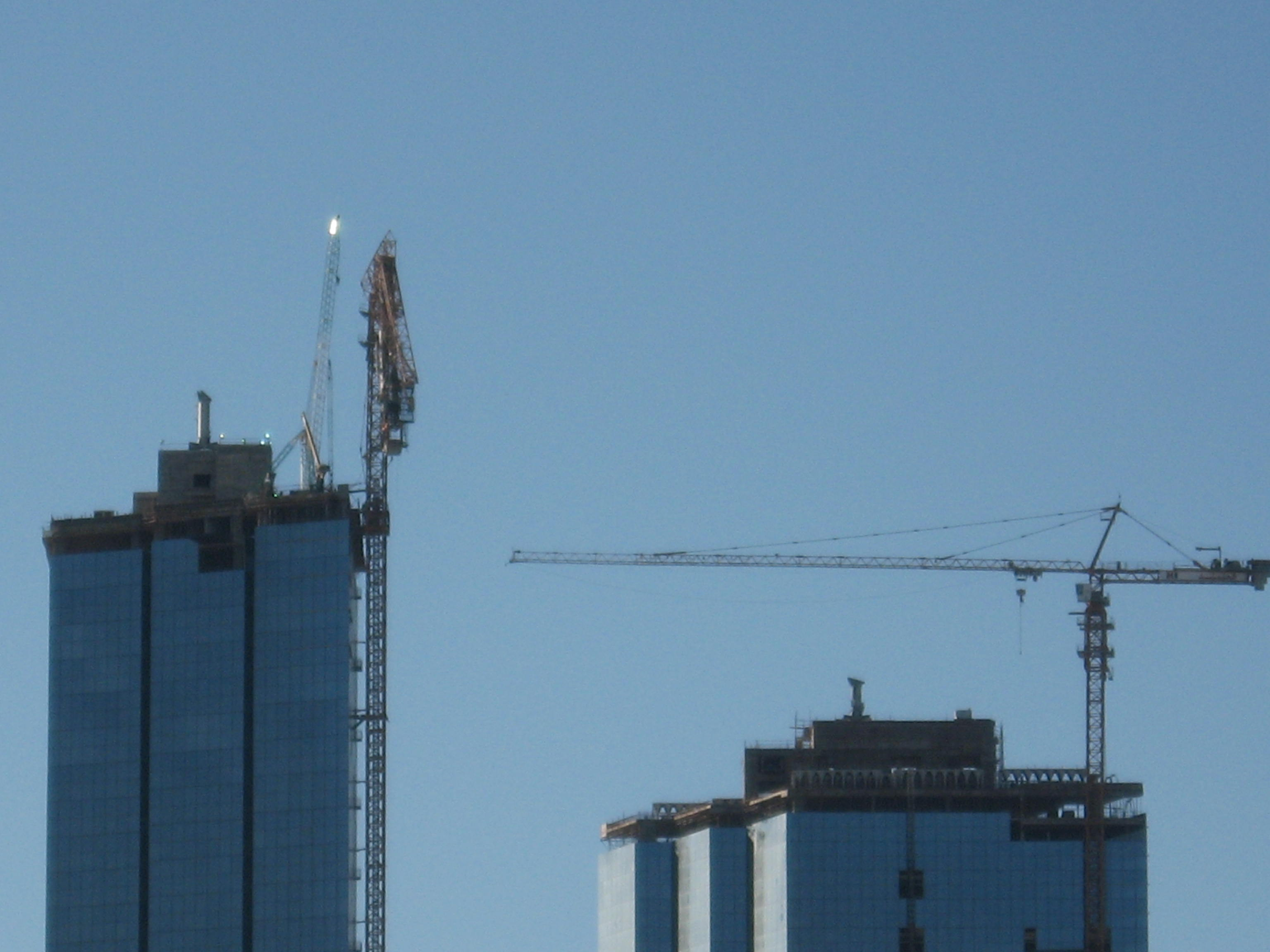 Collapsed Crane of the north Jordan Gate Tower, Amman, June 2008.